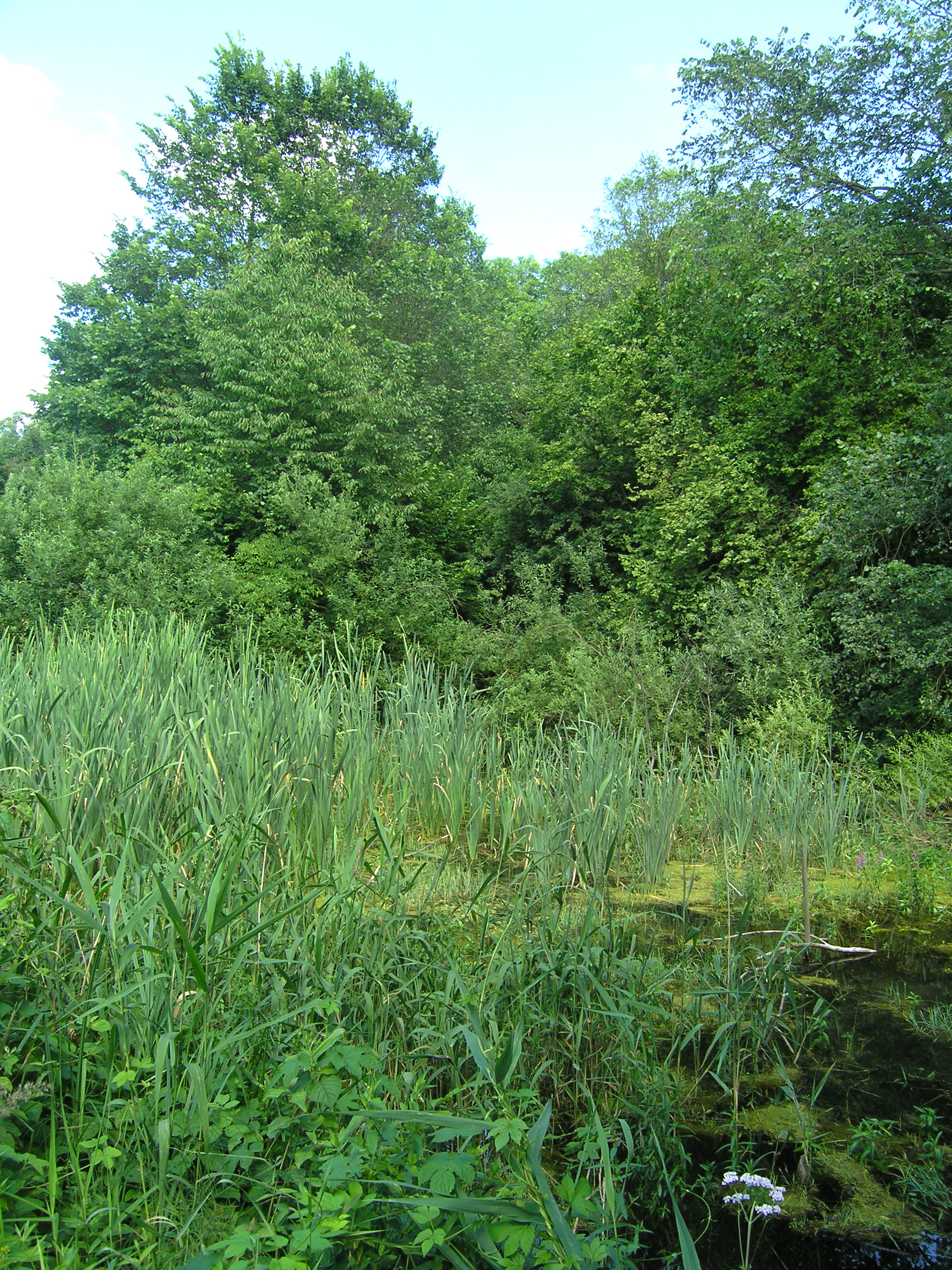 Na Obůrce national reserve in Třemošnice, Czech Republic